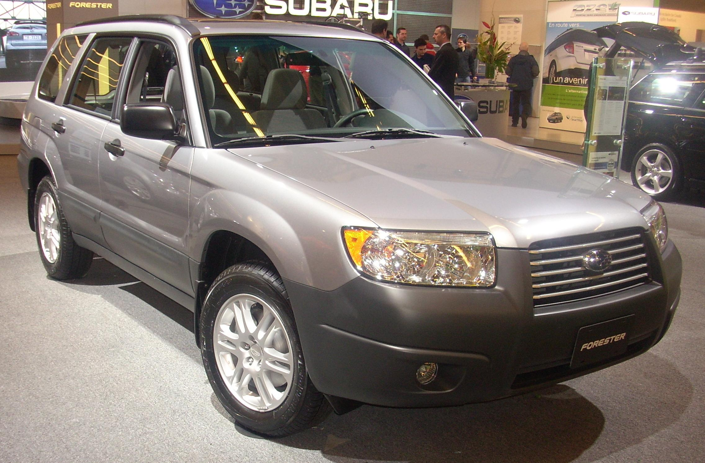 2008 Subaru Forester photographed at the Montreal Auto Show.